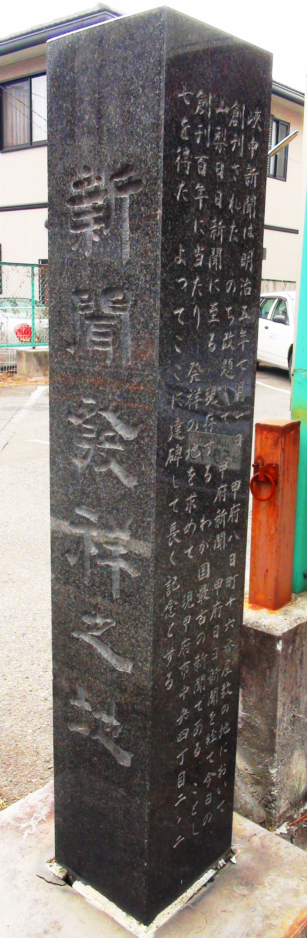 A place of the newspaper origin of Yamanashi prefecture